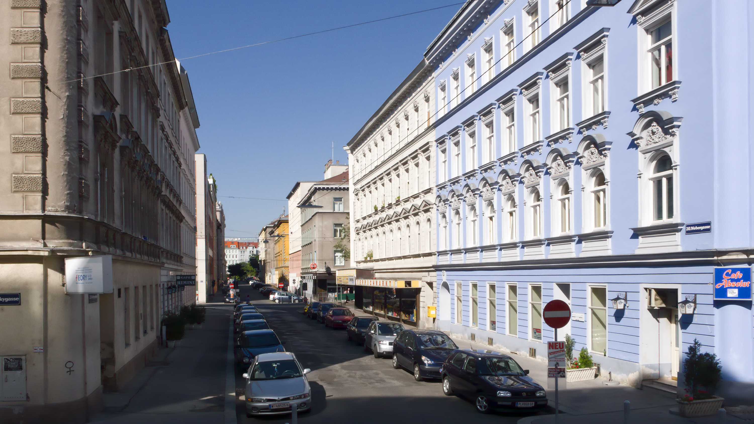 Webergasse (at Kluckygasse) in Vienna Brigittenau